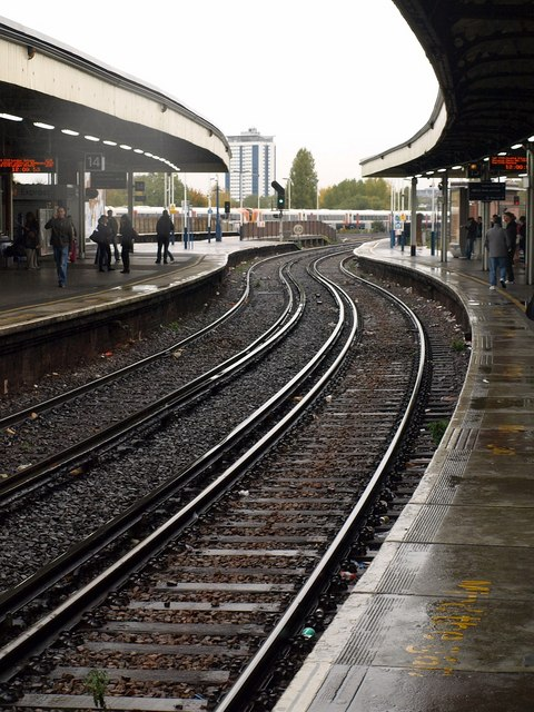 Platform 15, Clapham Junction station The track at this platform, which handles "Southern suburban services towards Sutton, Epsom, Caterham, West Croydon, London Bridge, Horsham and Dorking", makes an interesting double curve.